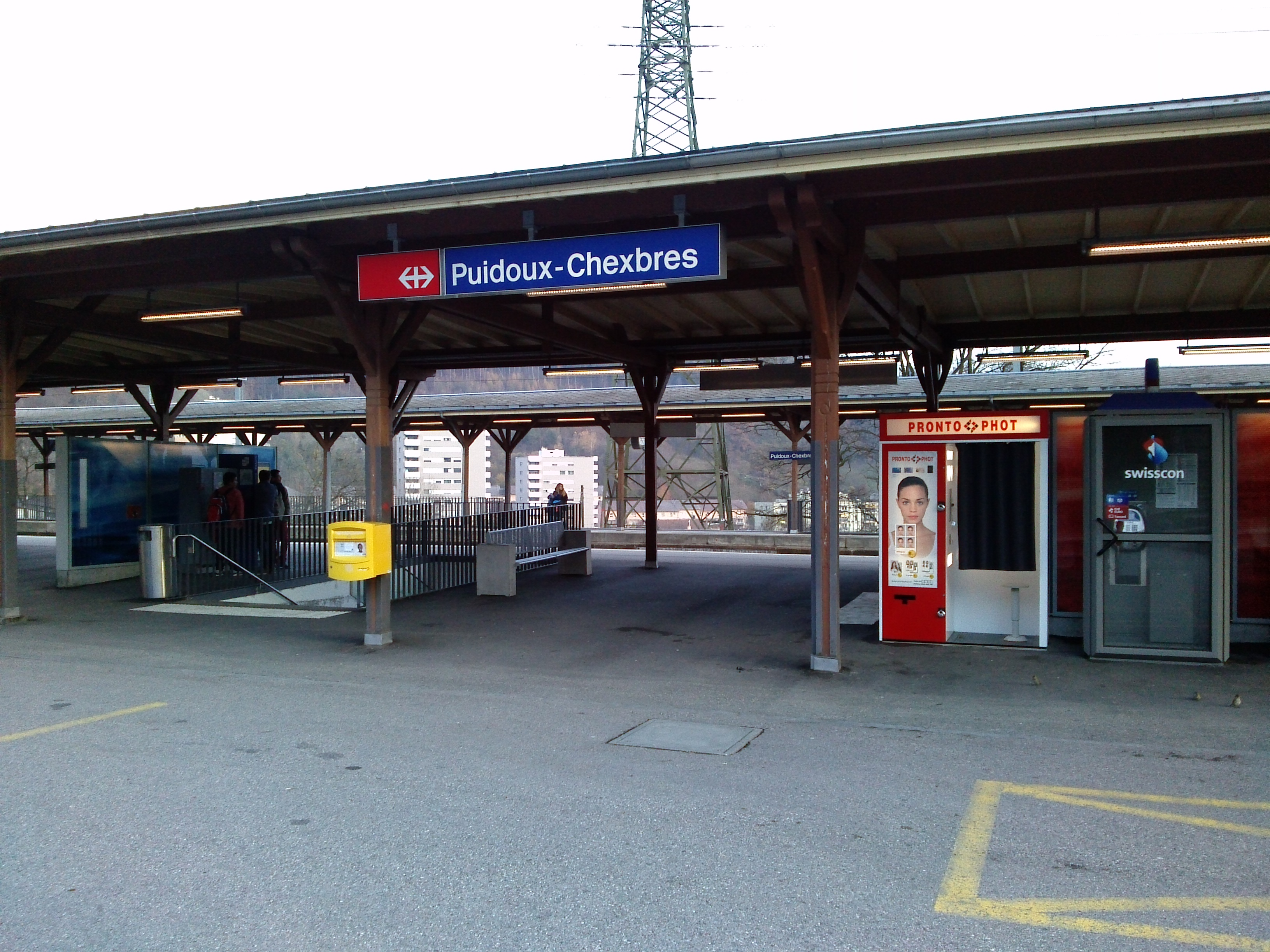 View of the railway station Puidoux-Chexbres.